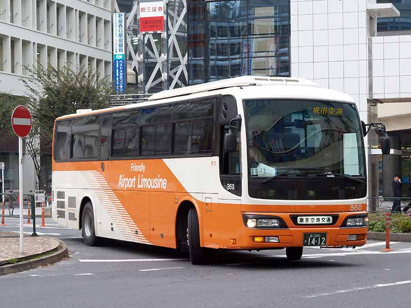 Airport Transport Service Co., Ltd (Tokyo Kuko Kotsu: a.k.a. Limousine Bus) Model: Nissan Diesel Space Arrow ADG-RA273RBN + Nishinippon Shatai (NSK) C-1 License Plate: TKS200 KA1412 （品川200か1412） Operator own number: 360-51150R2 (meaning/ manufactured in November 2005 and 50 seats within jump seats) Place: Shinjuku station west: Shinjuku ward, Tokyo, Japan